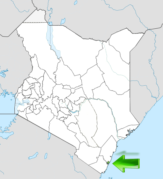 Location of Mombasa County